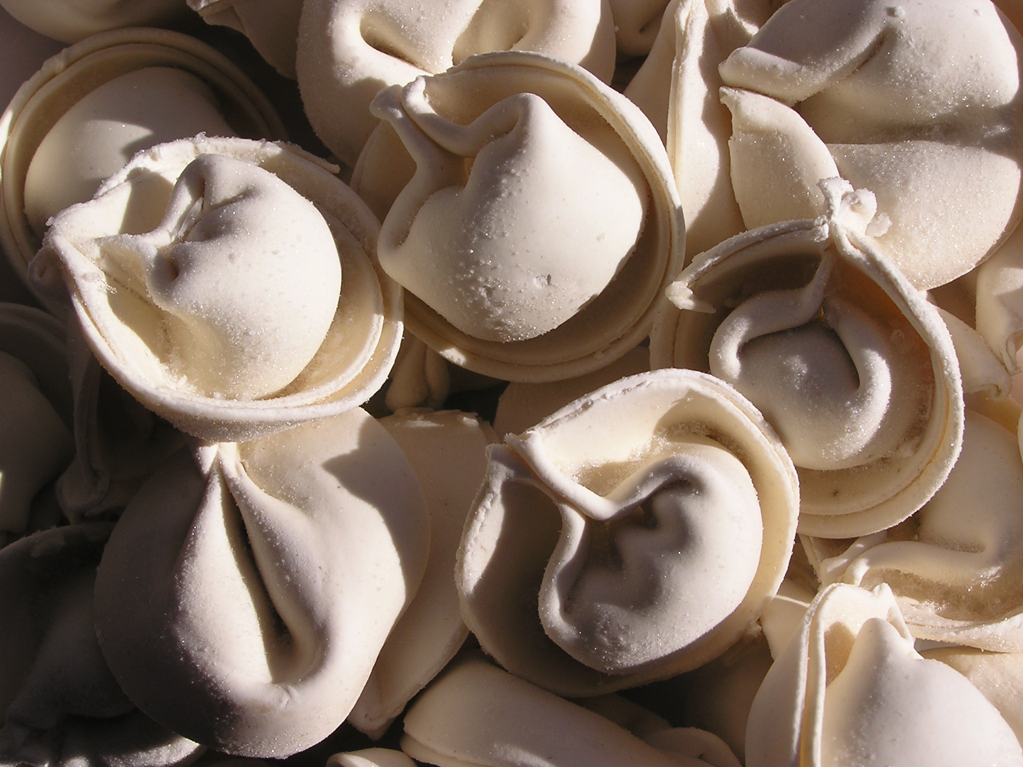 frozen pelmeni